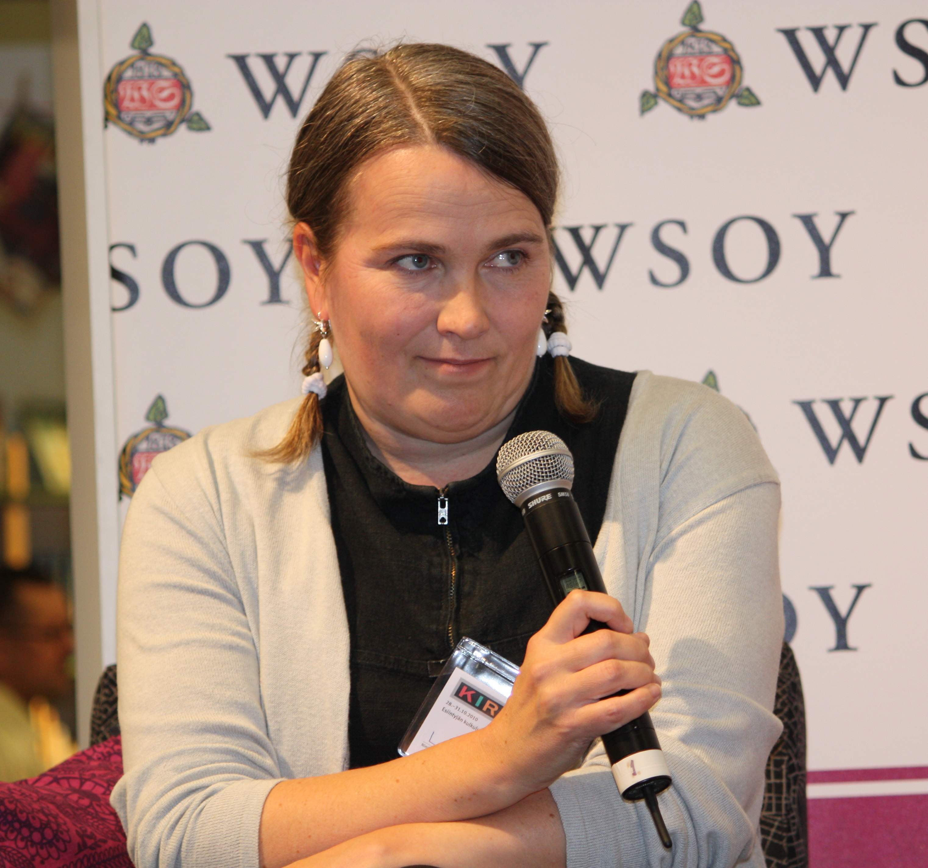 Finnish scientist and writer Leena Valmu at the Helsinki Book Fair 2010.